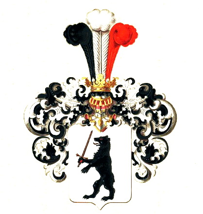 Coat of Arms of Ursati family